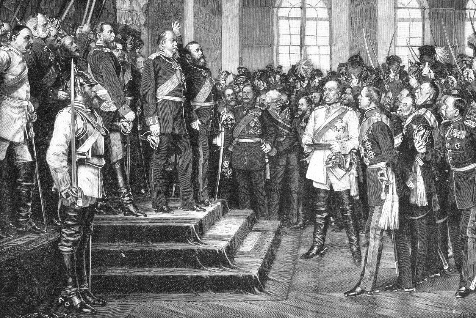 Germany: On January 18, 1871, the Prussian King Wilhelm I was proclaimed in the Hall of Mirrors at Versailles to the German Kaiser . In the center of the picture : Otto von Bismarck , before him General Field Marshal Count Hellmuth von Moltke . Bismarck was wearing a blue uniform and not a white, as Anton von Werner had, historically, inaccurately depicted. Reproduction after a painting by A. v Werner - . Book Scanning of Wolpertinger